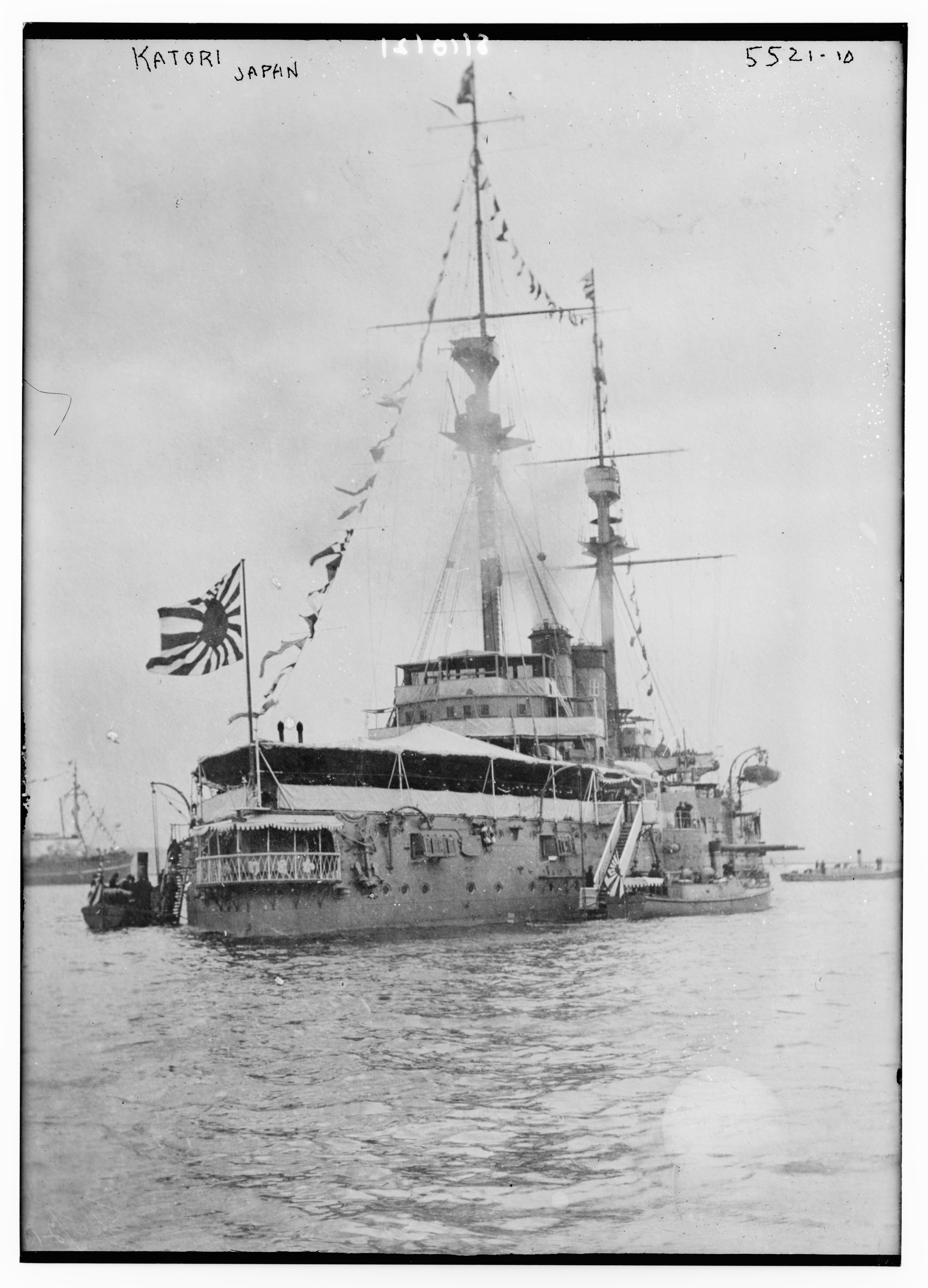 Title: Katori, Japan Abstract/medium: 1 negative : glass ; 5 x 7 in. or smaller.